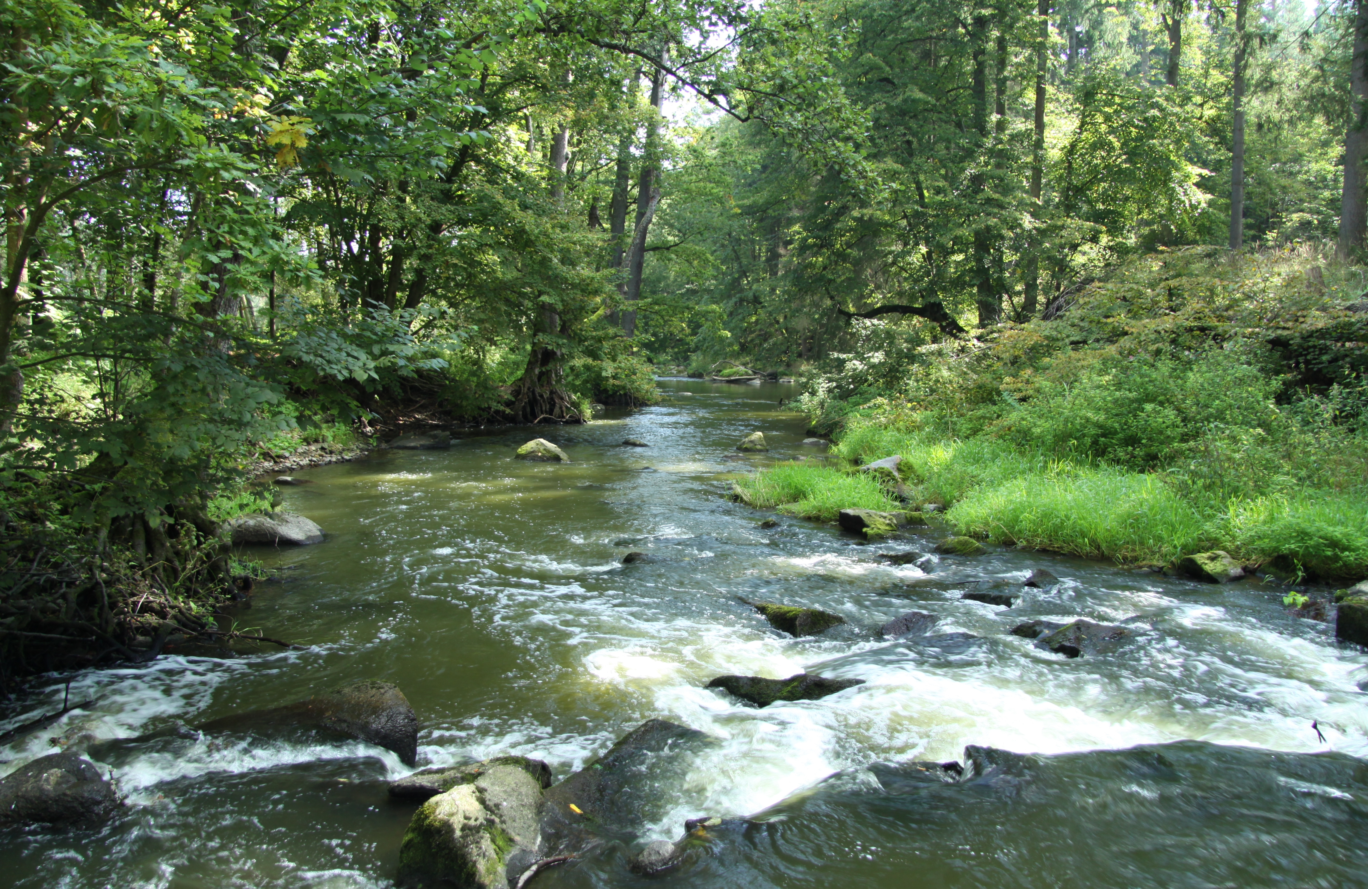 Natural monument Vystrkov with Lomnice River in Písek District, Czech Republic.